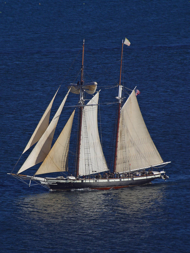 Topsail schooner Californian - A ship seen from the Cabrillo Monument.